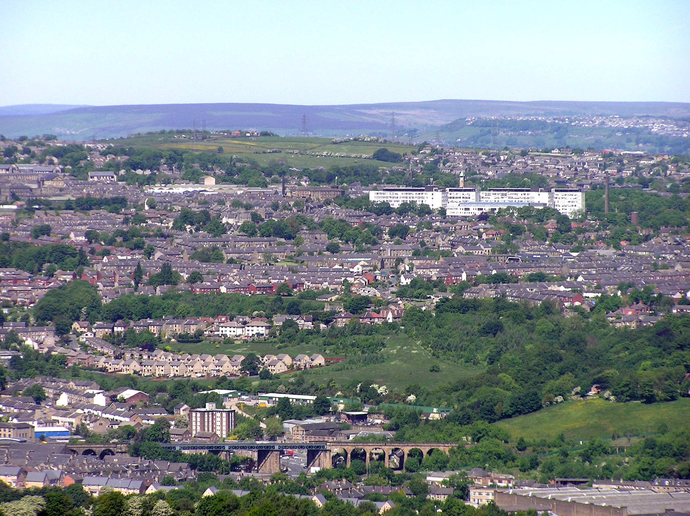 View from Castle Hill showing, from the bottom upwards, Longroyd Bridge & Paddock, Marsh, Lindley, and the Huddersfield Royal Infirmary.